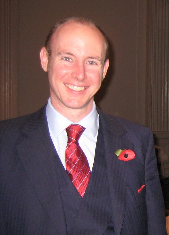 Picture of Daniel Hannan at a conference in the Grosvenor House hotel in London